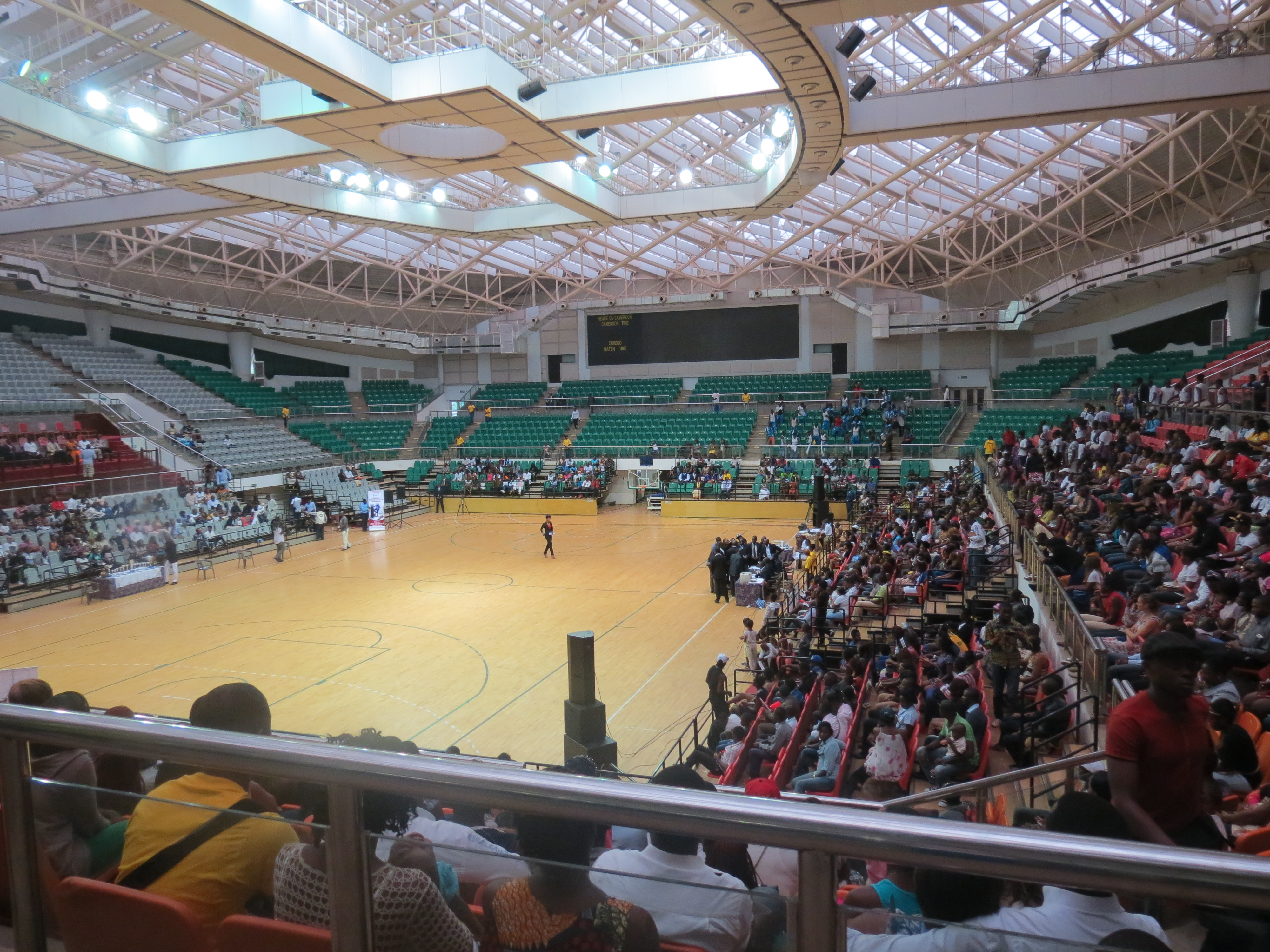 The Sports Palace in Yaoundé during the 16th edition of the National Dance Cup organised by FECADANSA.